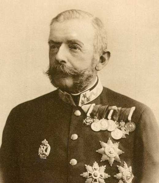 Count Friedrich von Beck-Rzikowsky 1830-1920 colonel general, chief of staff of the Imperial and Royal Army of Austria-Hungary 1881-1906